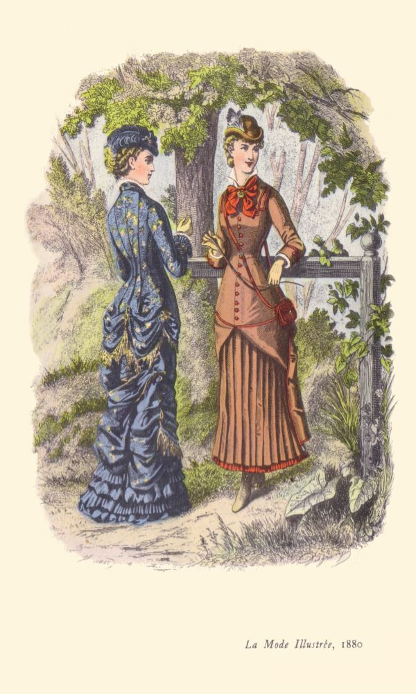 Fashion Plate, 1880 Walking and Hunting Costume